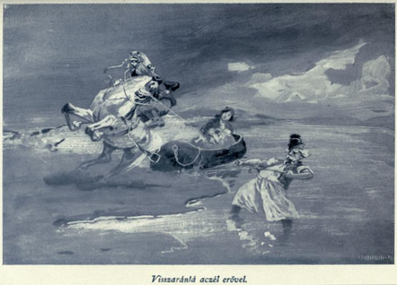 Illustration to Kuthy Lajos's novel